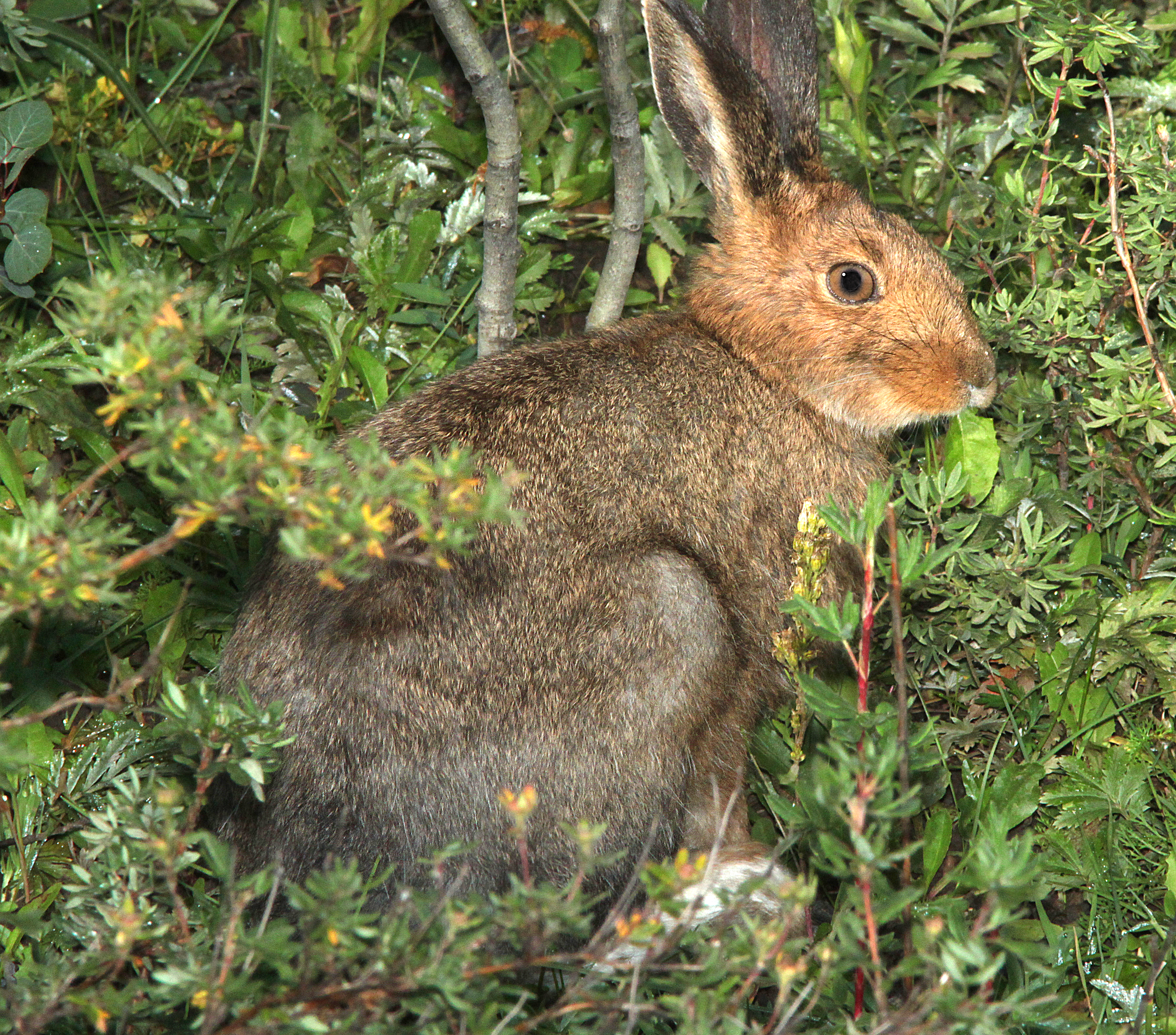 CRITTERS (MAMMALS)